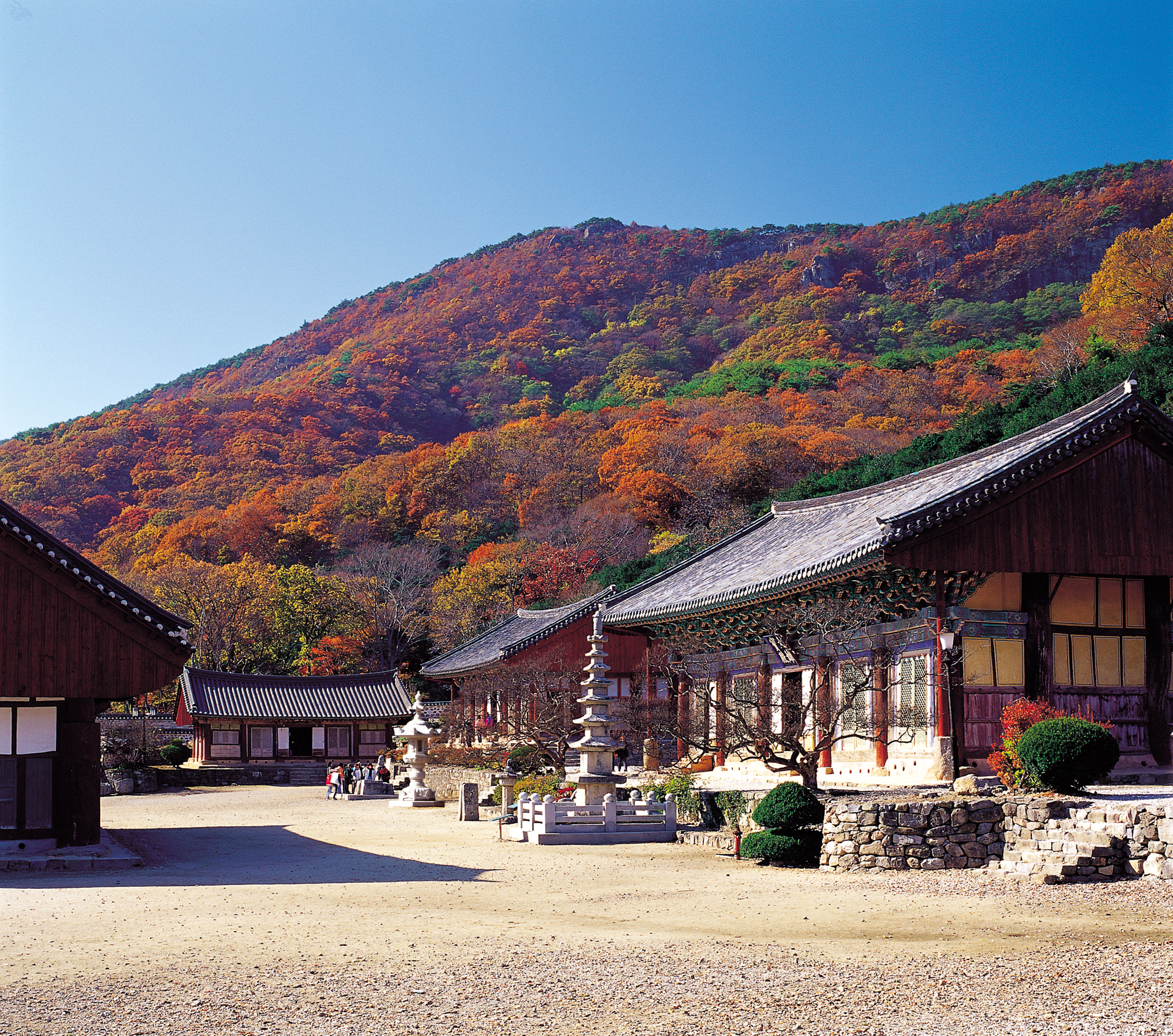 Seonun temple